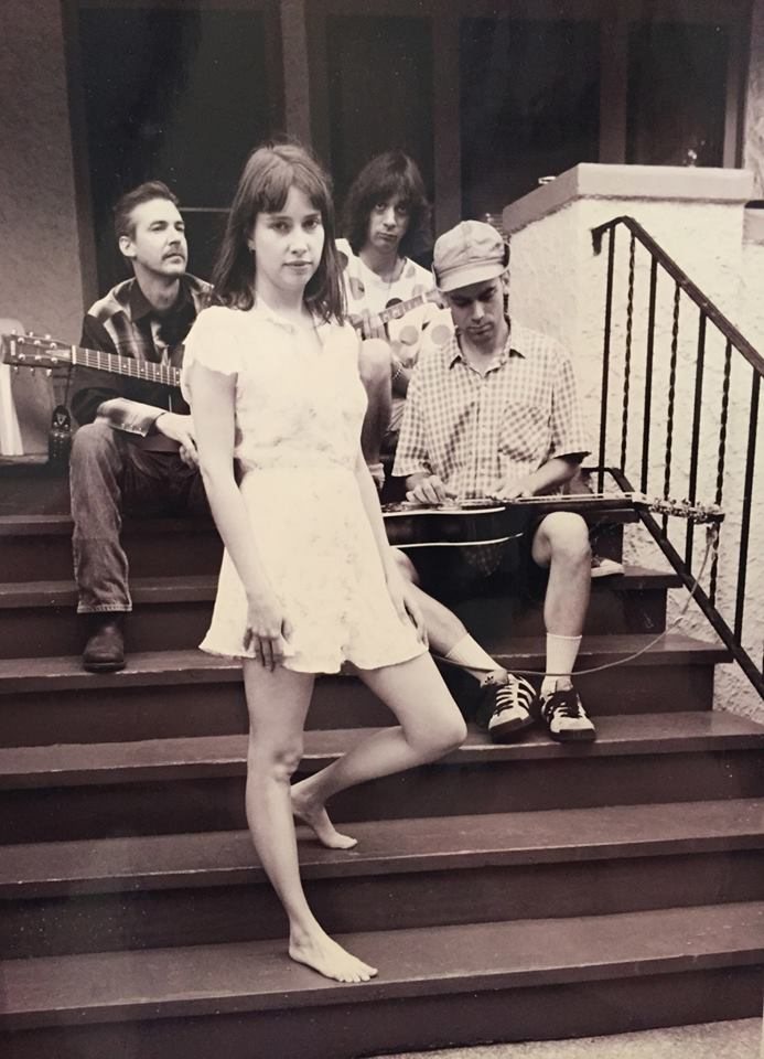 Pilgrim Beware members (clockwise): Brian Doyle, Heath Chappel, Stephen Dorocke, Jennifer Thornbury